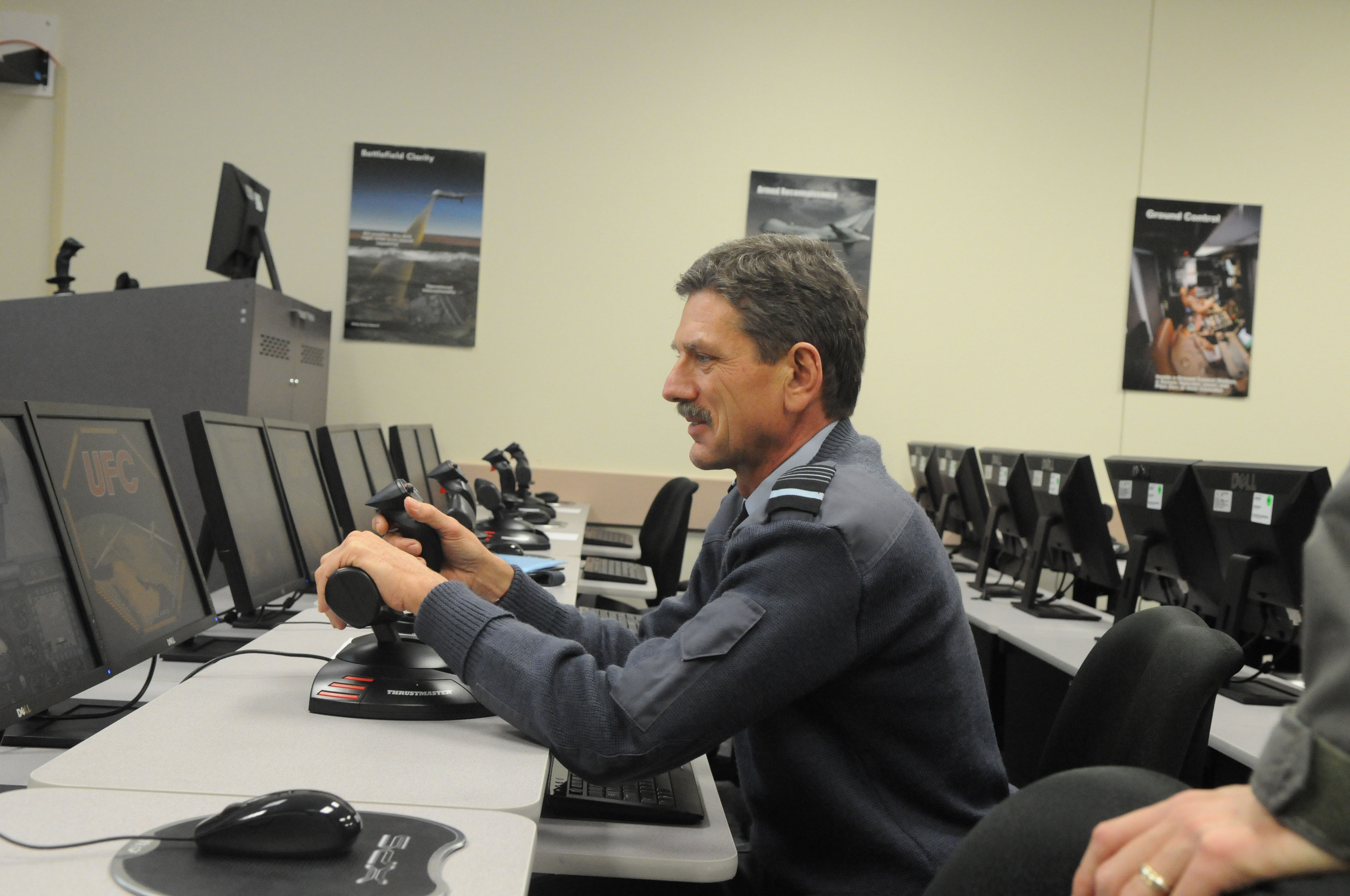 Royal Air Force Air Marshal Simon Bryant at the controls of an unmanned aerial vehicle trainer, during his visit to the 563rd Flying Training Squadron at Randolph Air Force Base, Texas.